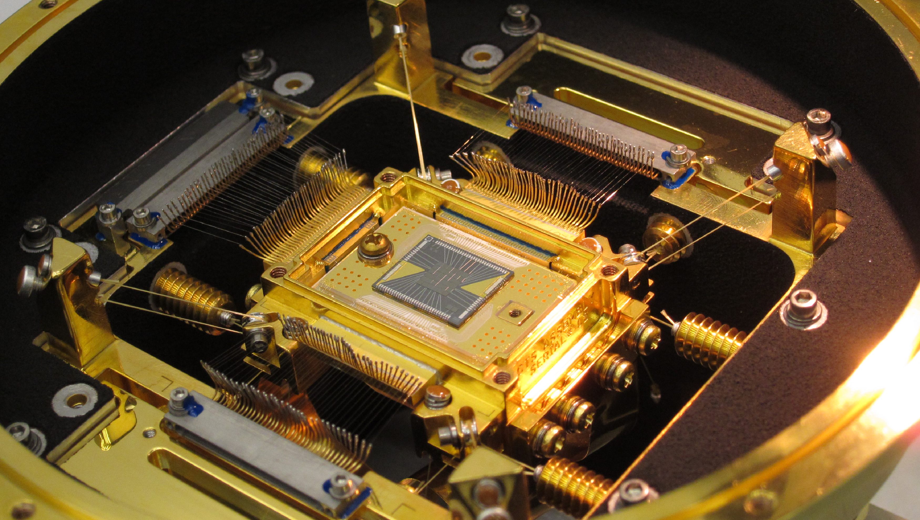 The heart of the ASTRO-H Soft X-ray Spectrometer is the microcalorimeter array at center. The five-millimeter square forms a 36-pixel array. Each pixel is 0.824 millimeter on a side, or about the width of the ball in a ballpoint pen. The detector’s field of view is approximately three arcminutes, or one-tenth the apparent diameter of the full moon.